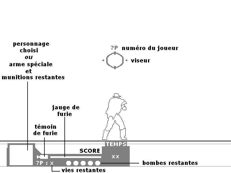 Interface of the video game Wild Guns (FR).